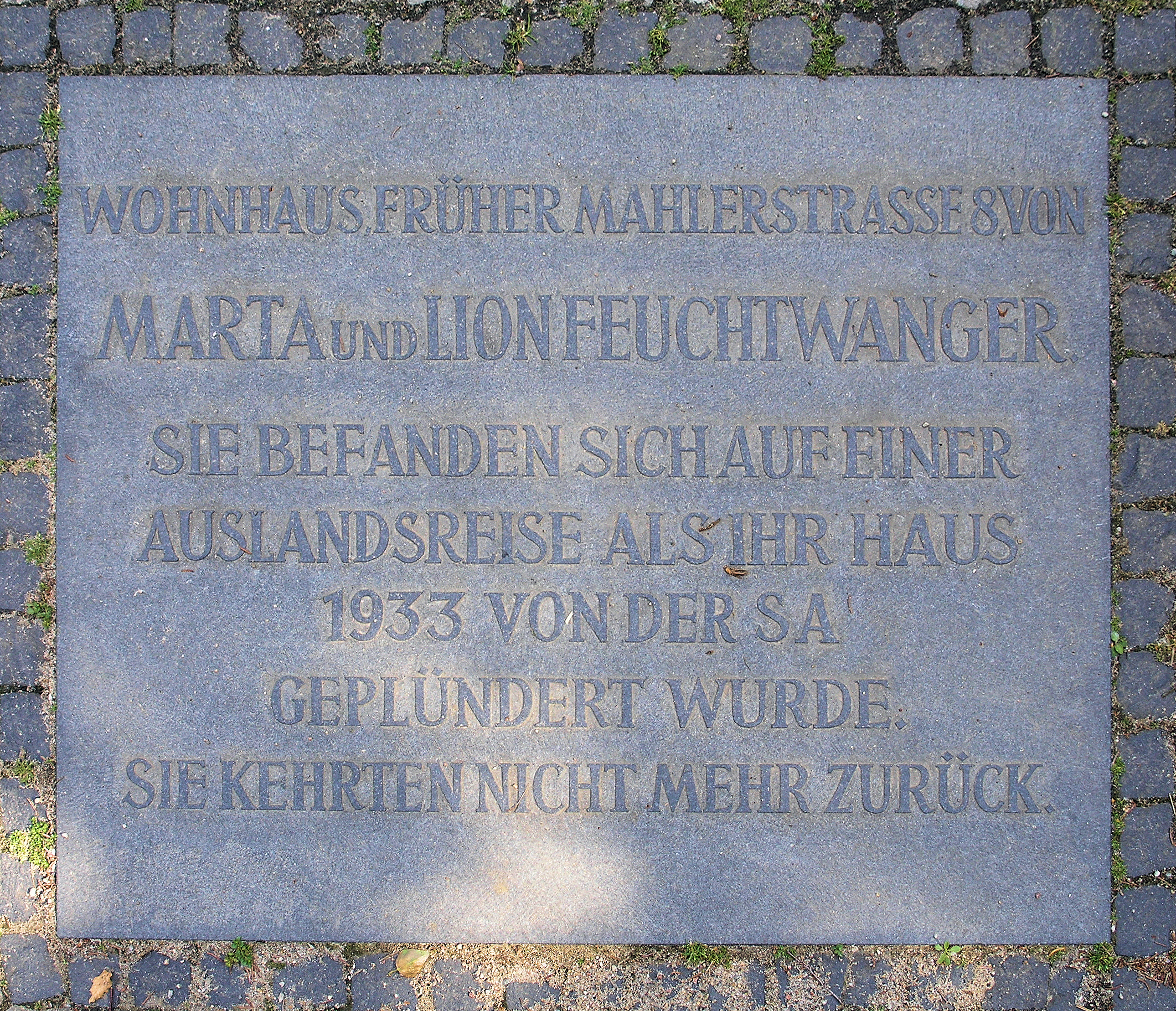 Memorial plaque, Lion Feuchtwanger, Regerstraße 8, Berlin-Grunewald, Germany Koordinate:52°28′45″N 13°16′1″E / 52.47917°N 13.26694°E